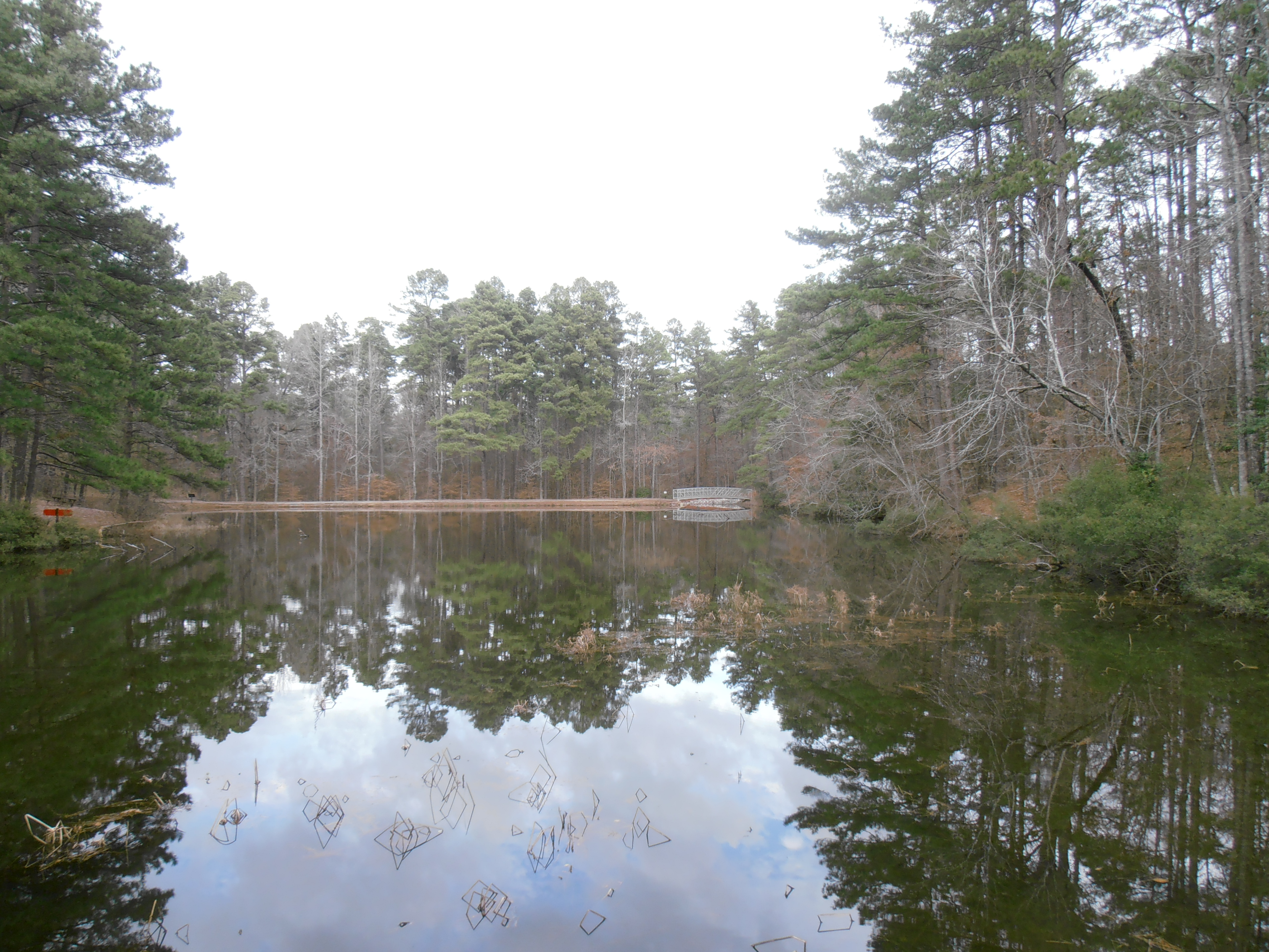 December 15, 2012, around 2.30 p.m.